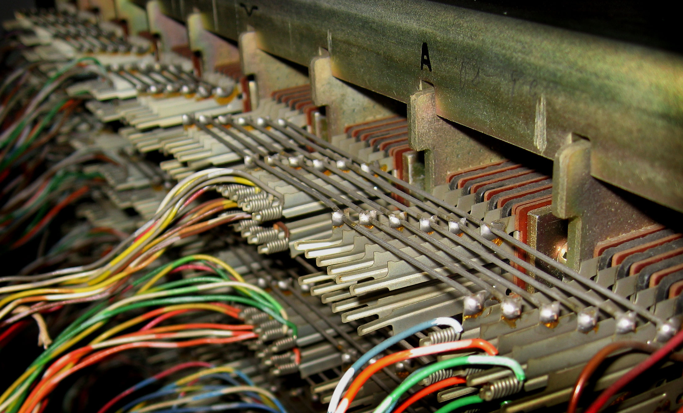 Detail of back side of a Western Electric 6-wire 100-point crossbar switch (model 324-N) showing "banjo" wiring. Note this model of crossbar switch was divided into three groups of verticals; 4, 2, and 4. The banjo wiring as seen here is continuous only within each vertical group. More typically crossbar banjo wiring extended across all verticals of the switch.